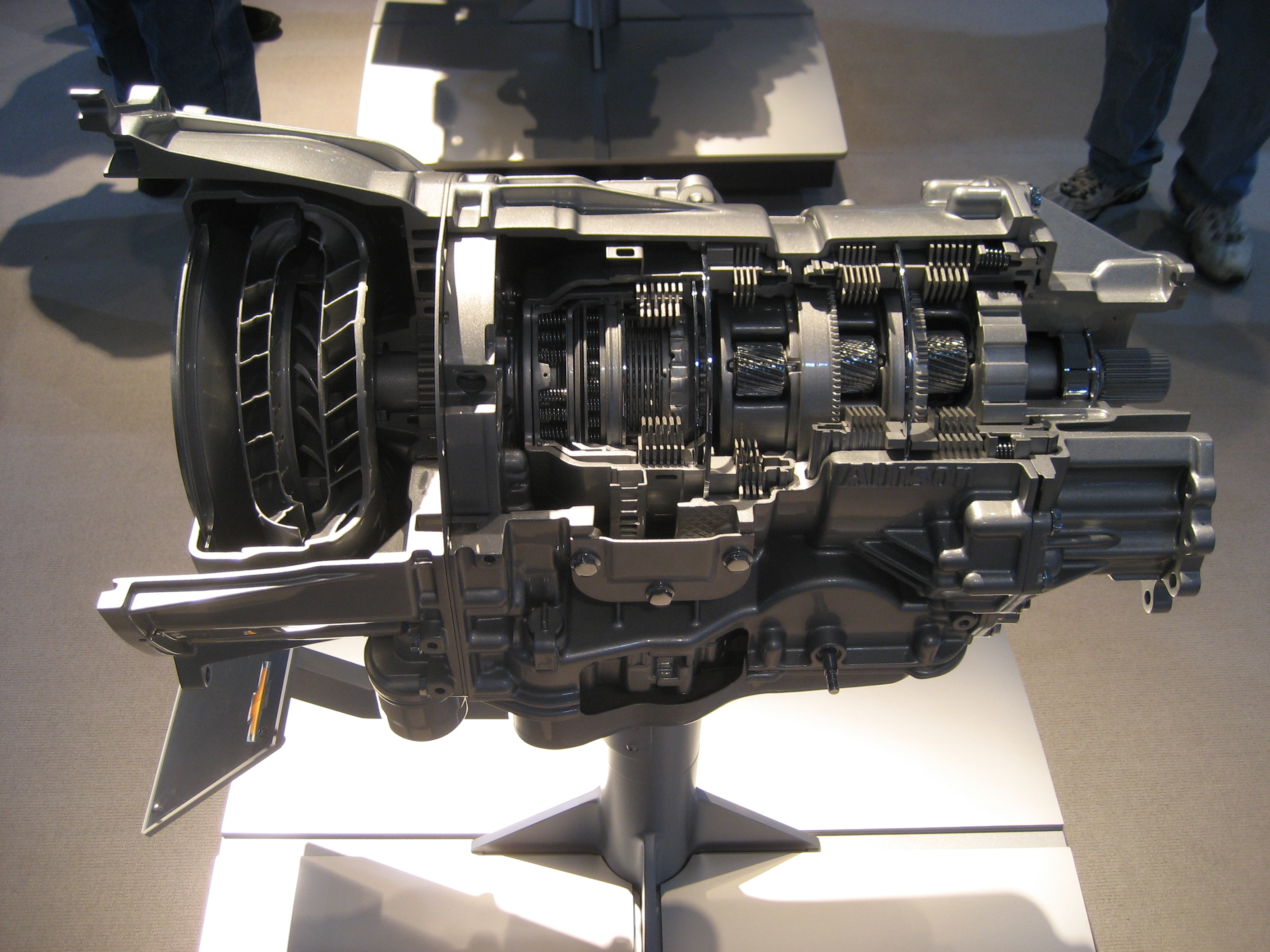 Allison 1000 demo